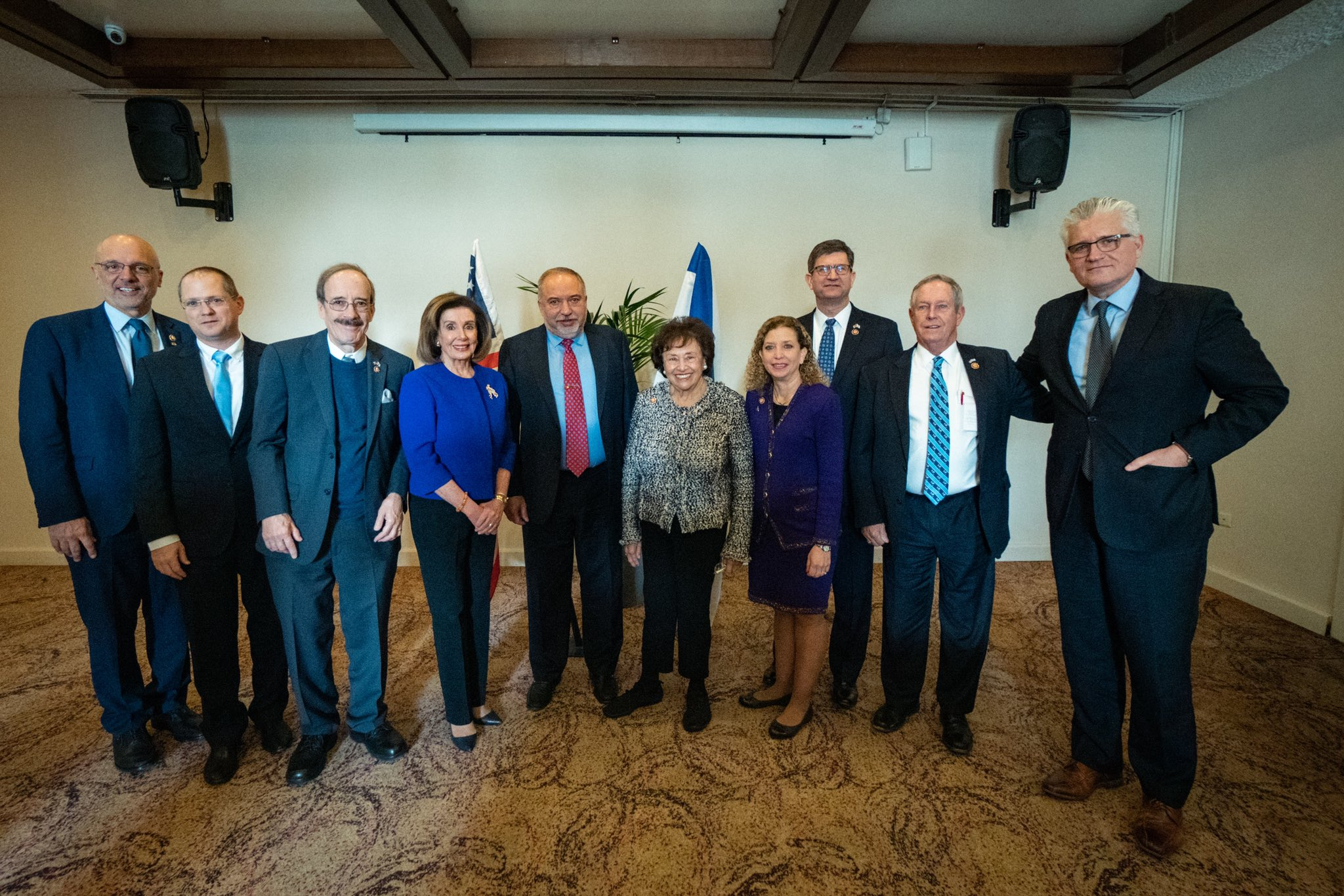 Today, our delegation began its visit in Israel by holding meetings w/ @Netanyahu, @YuliEdelstein & Knesset members, & @AvigdorLiberman w/ the purpose of continuing to build on the strong bonds between our two nations as we mark 75 years since the liberation of Auschwitz.